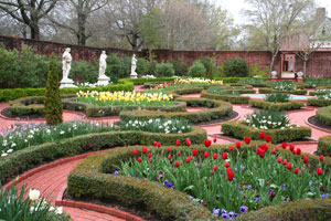 Latham Garden, Tryon Palace, New Bern, North Carolina